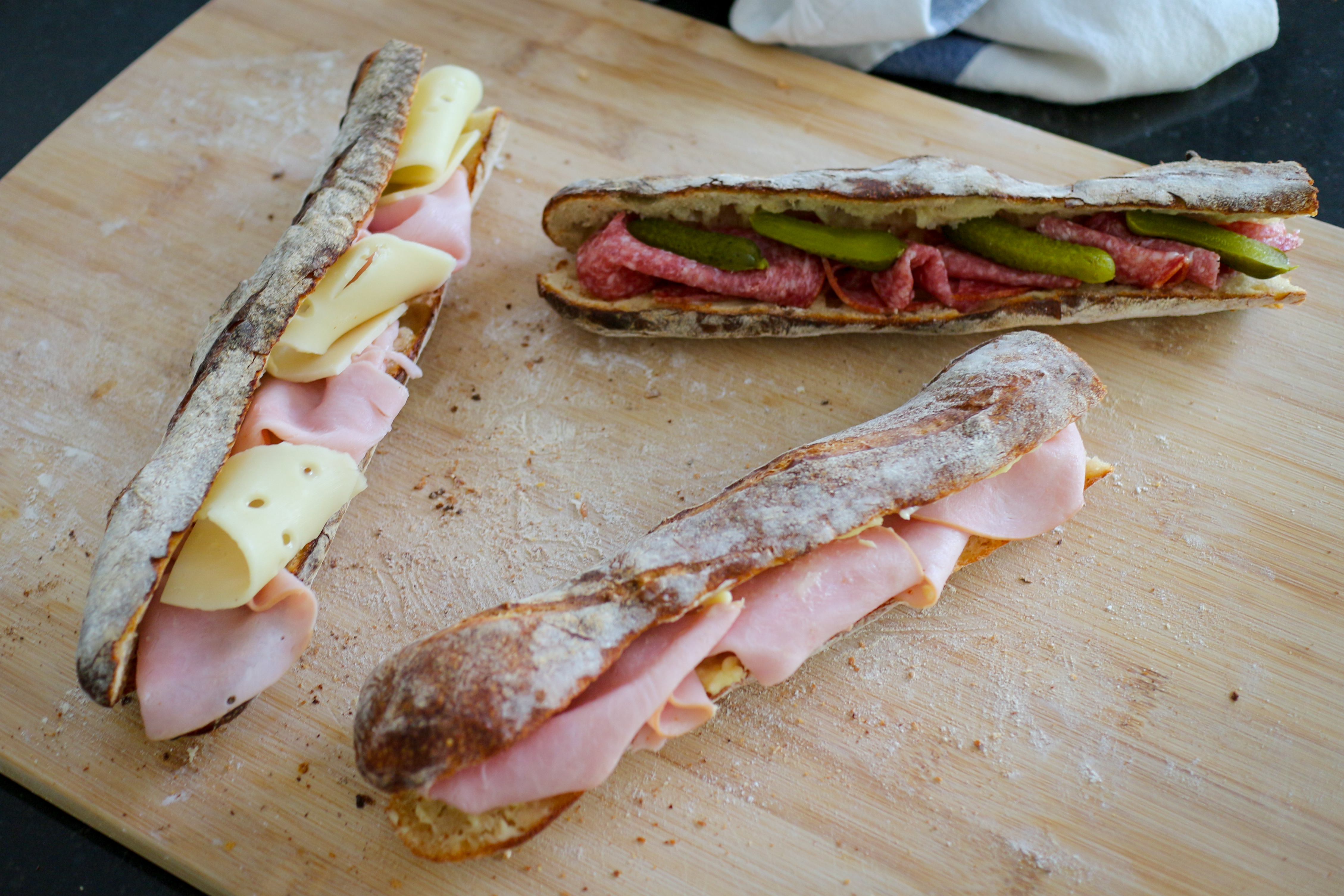 Classic baguette sandwiches that one would typically find in a boulangerie (bread bakery) in Paris: Jambon-beurre / Ham sandwich (front centre); Rosette-cornichons / Salami and gherkins sandwich (back right); Jambon-emmental / Ham and swiss cheese sandwich (left)